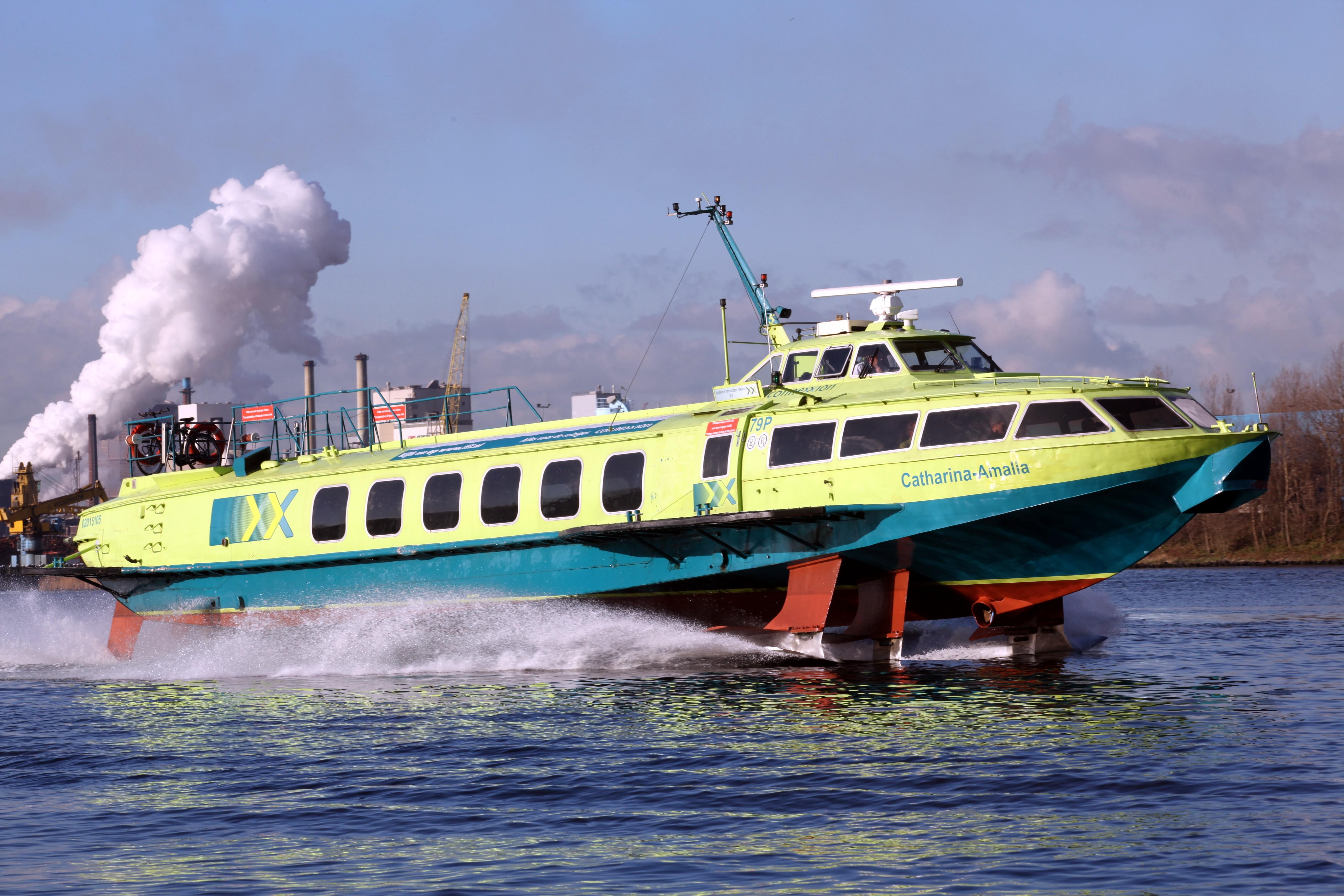 Catharina Amalia from Connexxion is a Morye Voskhod - 2M hydrofoil build in the Ukraine here on its way to amsterdam